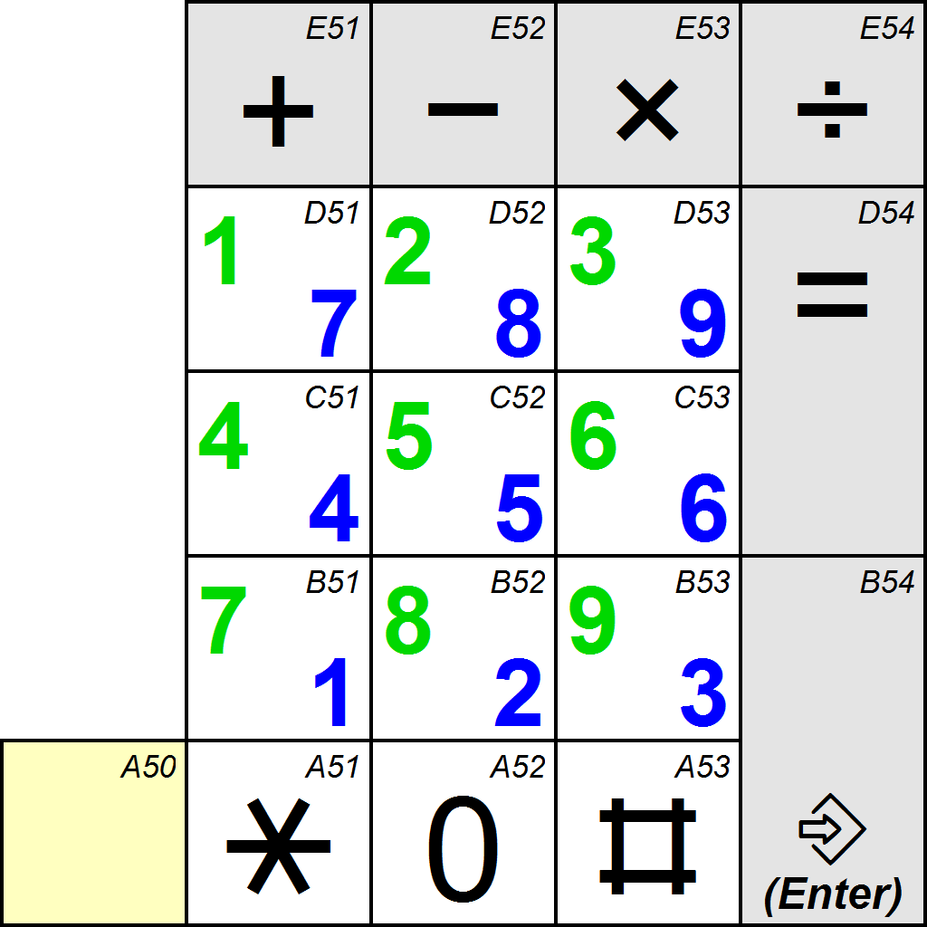 Showing the numeric section of a keyboard according to ISO/IEC 9995-4, highlighting some features specified in that standard